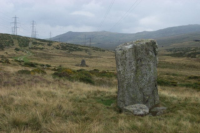 Bwlch y Ddeufaen Northwest Standing Stone. This is the smaller Northwestern standing stone of Bwlch y Ddeufaen. The larger Southeastern stone can also be seen in the distance along with the ugly pylons.